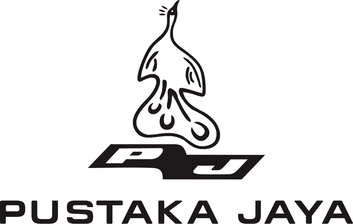 Logo of Dunia Pustaka Jaya, a publishing company in Indonesia